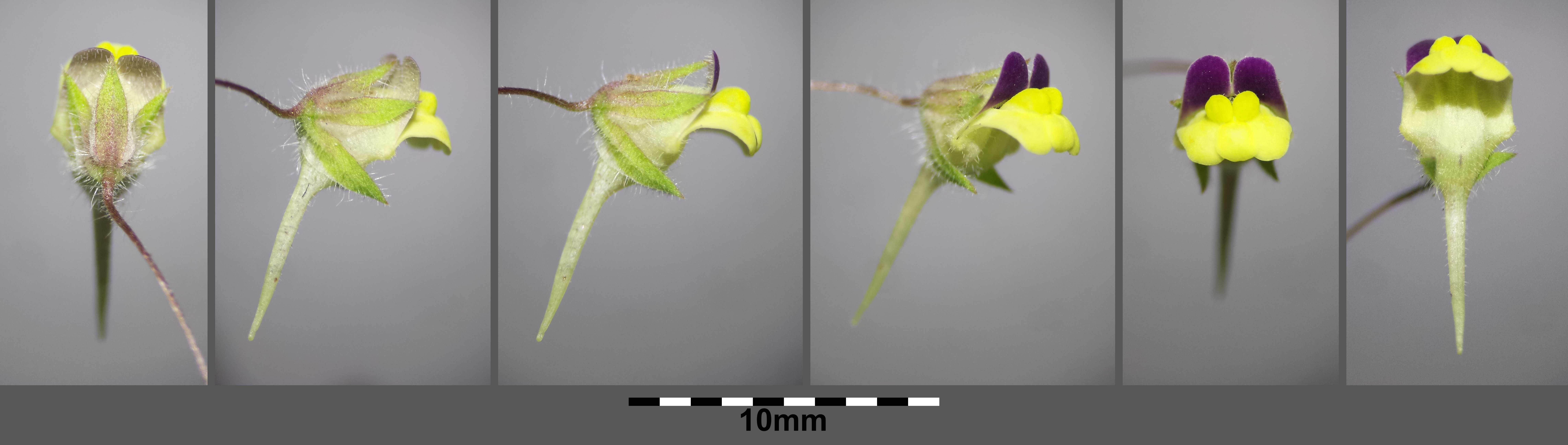 Flower Taxonym: Kickxia elatine ss Fischer et al. EfÖLS 2008 ISBN 978-3-85474-187-9 Location: Groß-Jedlersdorf cemetery, Vienna-Floridsdorf - ca. 160 m a.s.l. Habitat: gap in surface